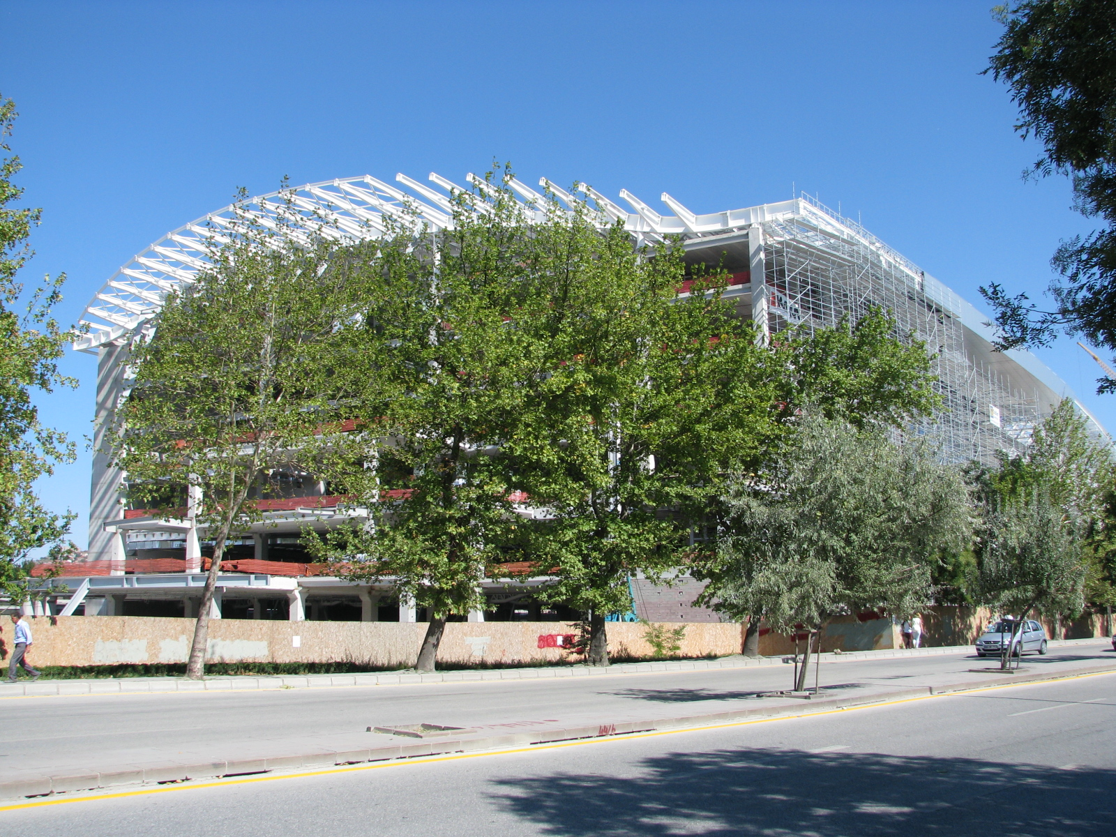 Ankara High Speed Train Station Construction Site, 2015